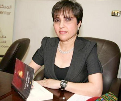 huzama signing her novel "Before the Queen Falls Asleep" at the Arab Cultural Center in Amman.